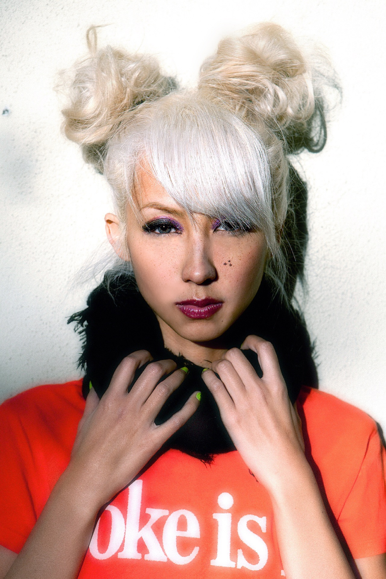 Melissa Reese Composer_Recording Artist.jpeg